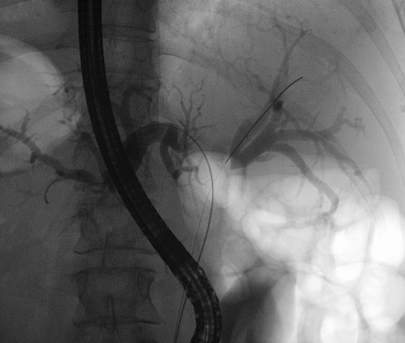 Klatskin tumor during ERC. The patient lies on his stomach obliquely, so that the left side of image corresponds to the patient's left side. In the left and right biliary system, a wire is placed, which is required for the subsequent insertion of stents to drain bile. Both parts were injected with contrast through a tube. The lack of contrast in the area of the confluence is clearly visible, where the wires run parallel.